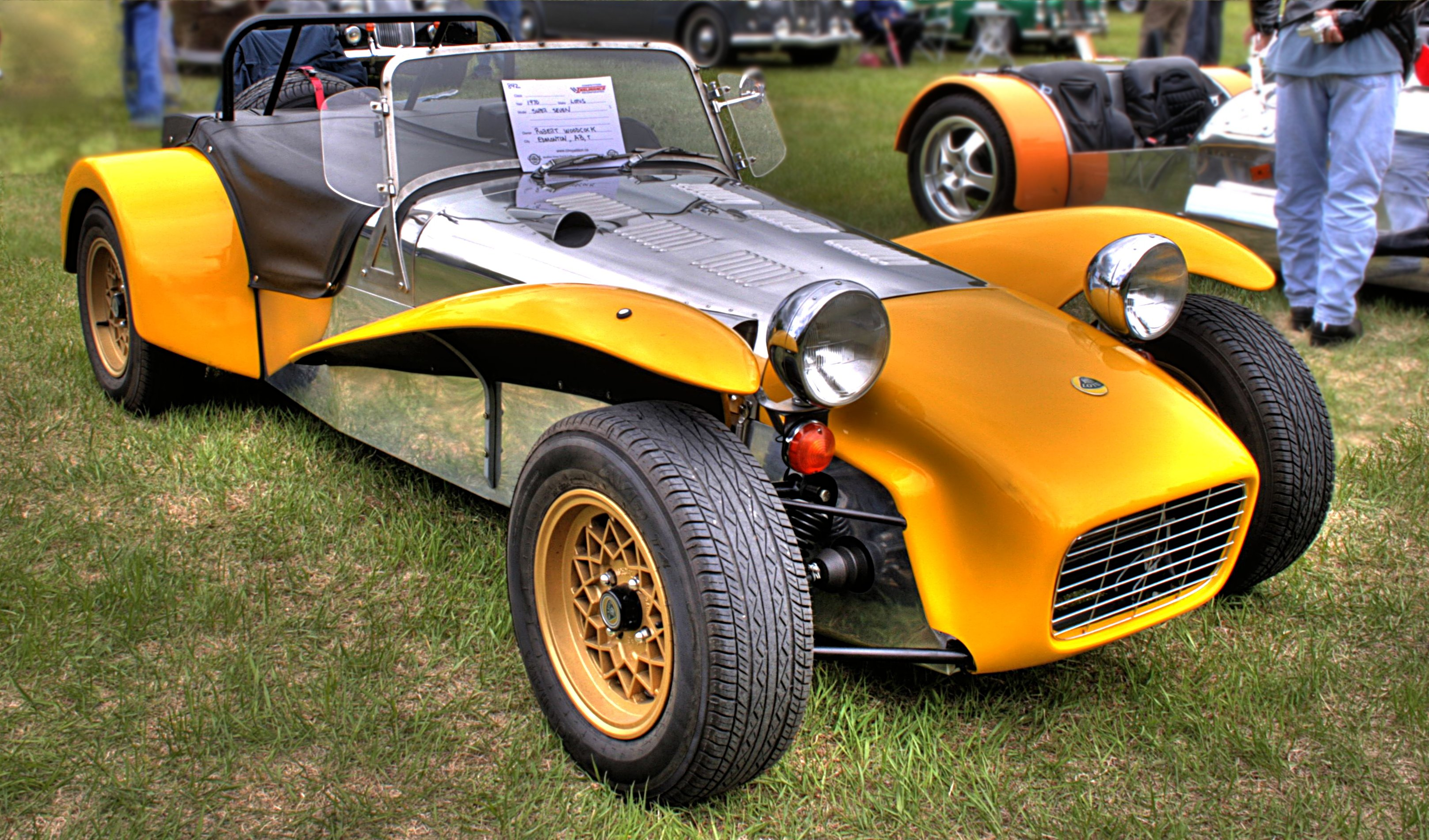 A 1970 Lotus Super Seven sports car.